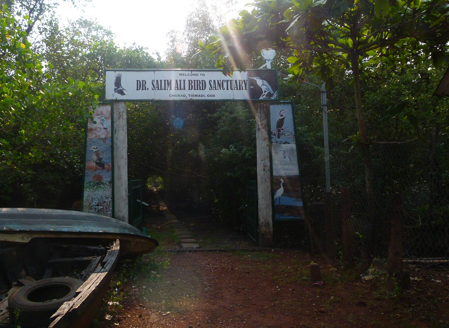 Entrance of Salim Ali Sanctuary, Chorao, Goa, India